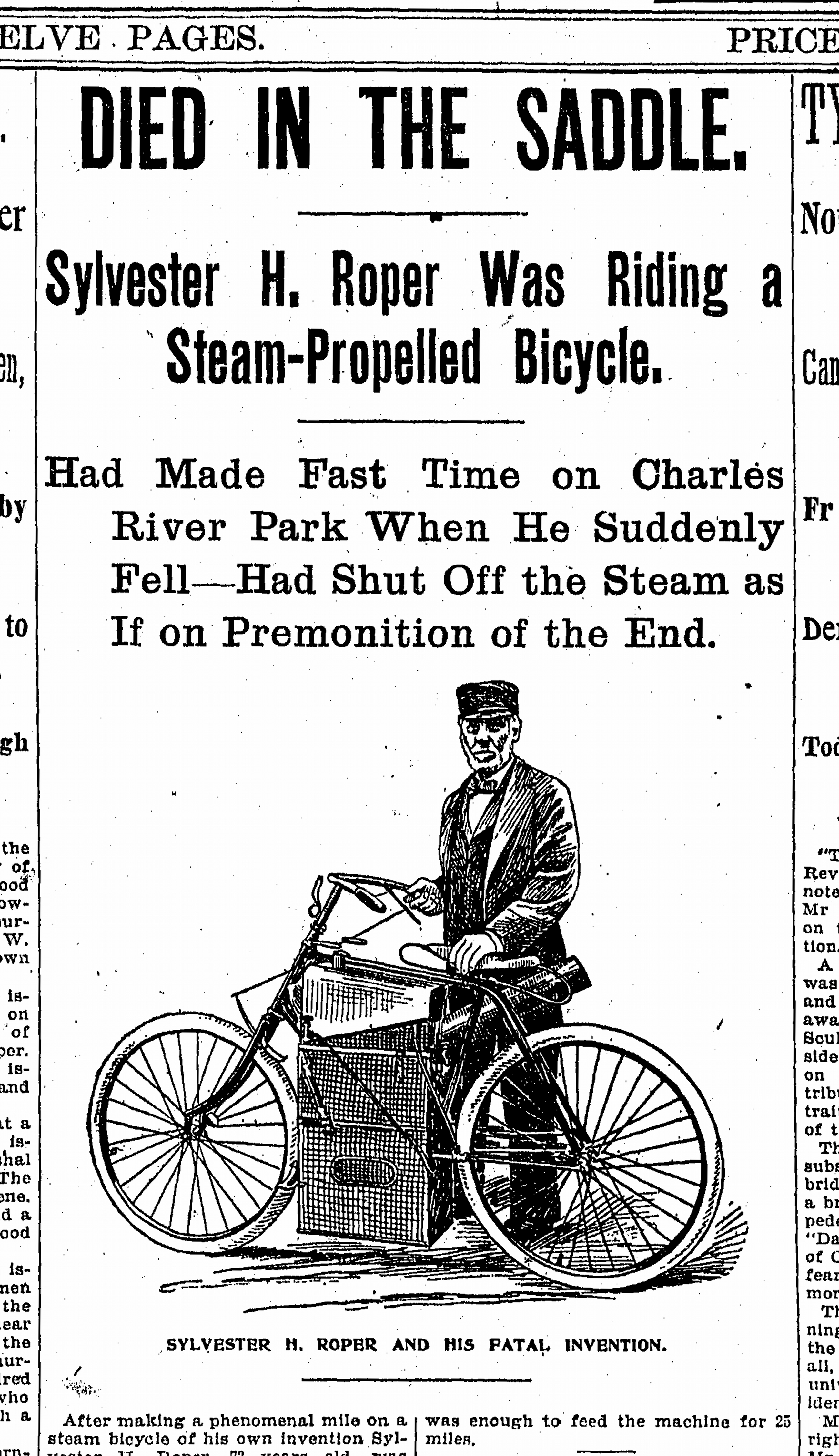 "Died in the Saddle" Sylvester H. Roper obituary. Boston Daily Globe 2 June 1896.